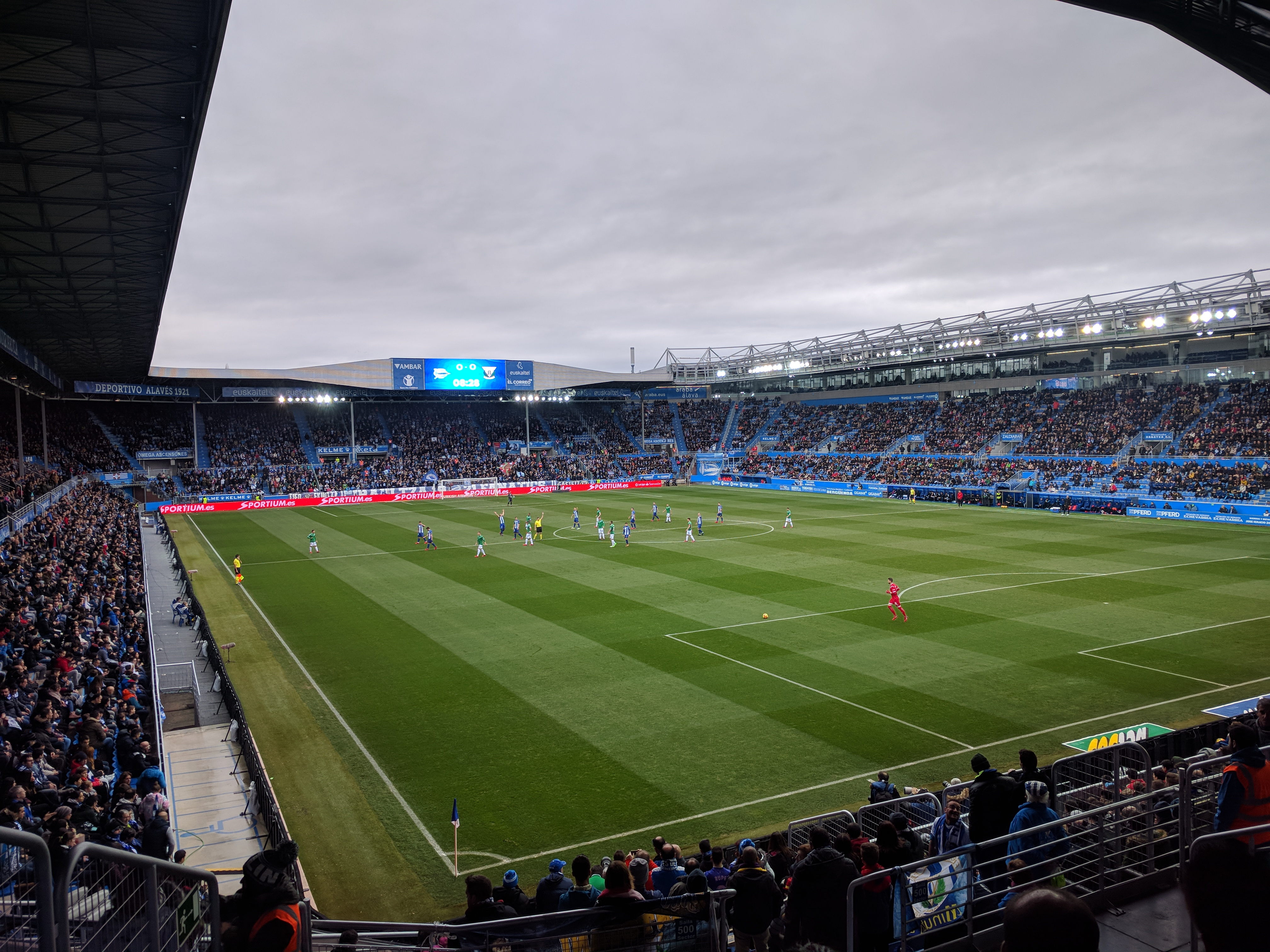 Match of Primera División, LaLiga 2017-18, Deportivo Alavés 2:2 CD Leganés, Mendizorroza